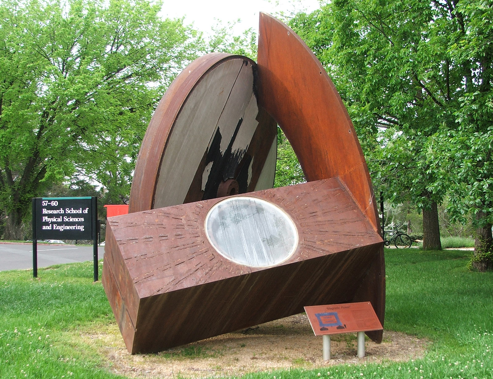 The remains of the RSPhysSE, ANU Homopolar generator. Photo taken by me 4 Nov 2005 and released under the GFDL.